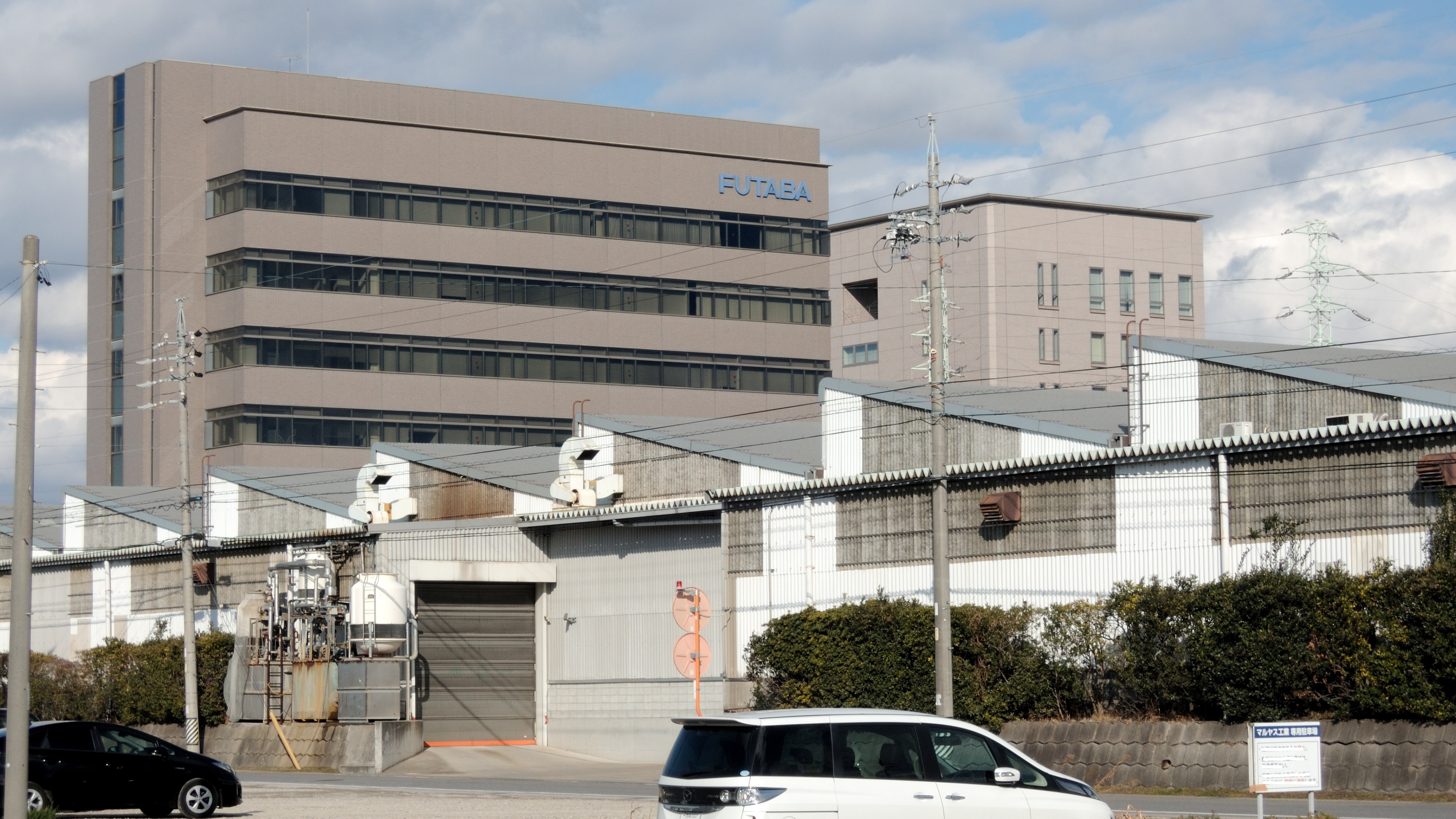 Headquarters of Futaba Industrial Co., Ltd. ,Aichi prefecture,Japan